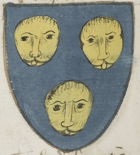 The arms of "Cieulx de Maligny" [McGhie of Balmaghie] which appear in the Armorial de Berry.